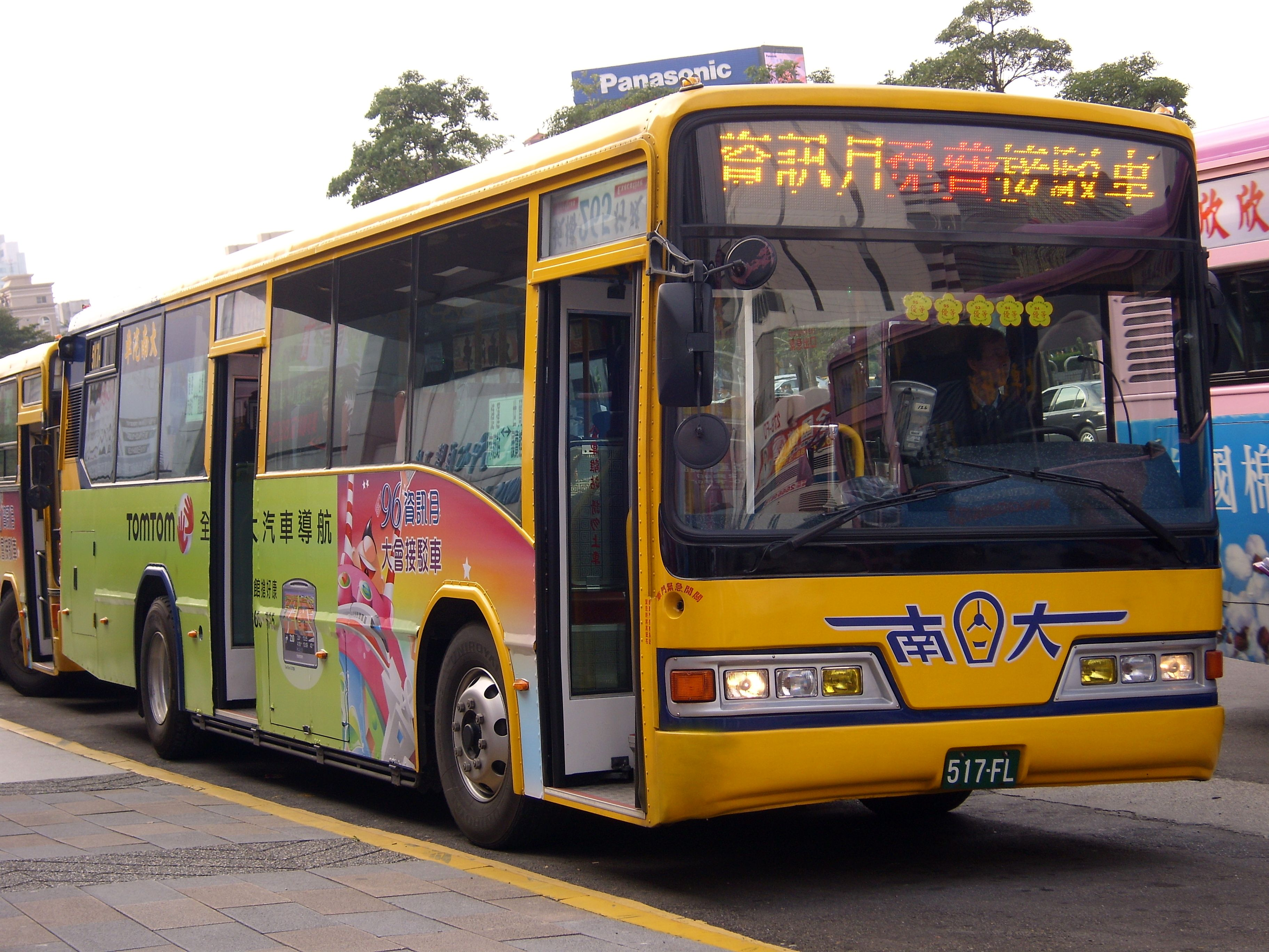 2007 Taipei IT Month: Shuttle Bus by Da-nan Bus Co., Ltd.